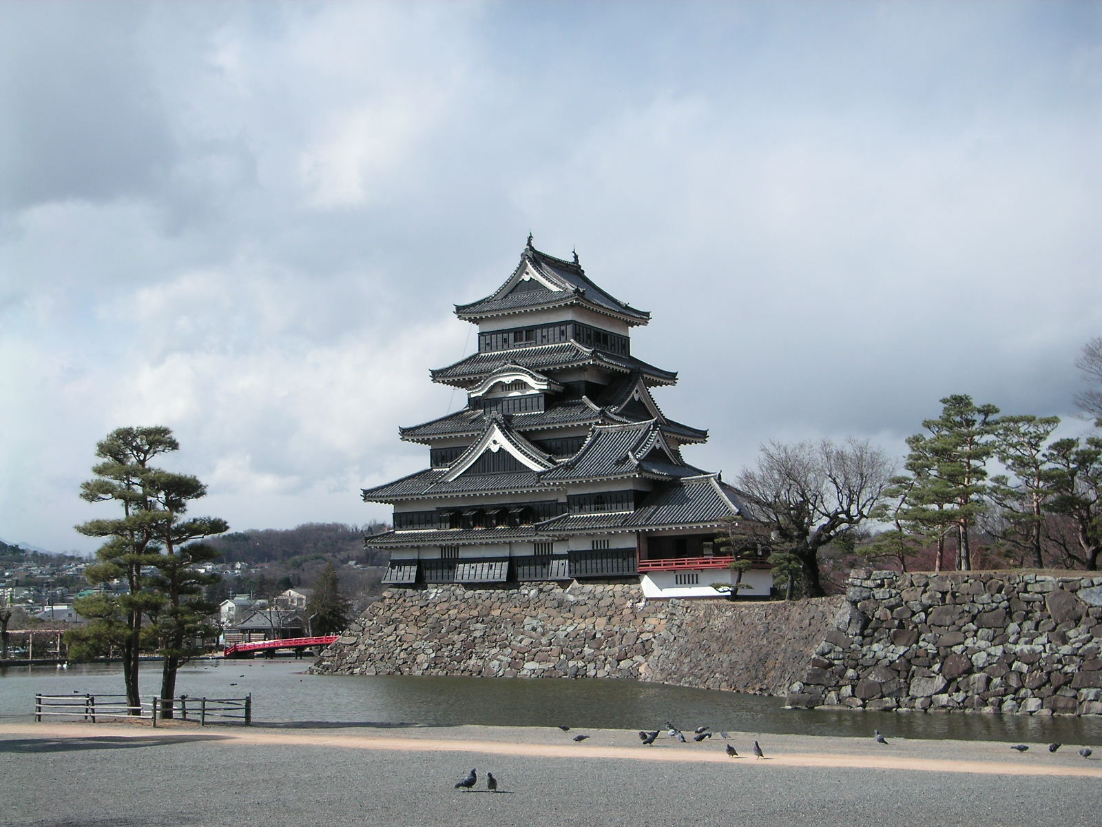 Castle of Matsumoto, Nagano Prefecture, Japan